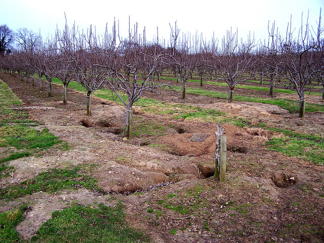 Busy bunnies Even the best kept orchard can have its problems. Here rabbits have done enough damage to kill one tree already, with others looking to be at risk. The trees are pear.